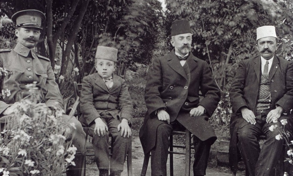 From left to right, Captain Hendrik Reimers, Ibrahim Biçakçiu as a ten-year-old boy, Aqif Pasha Biçakçiu of Elbasan and Ali Agjah Bey of Elbasan